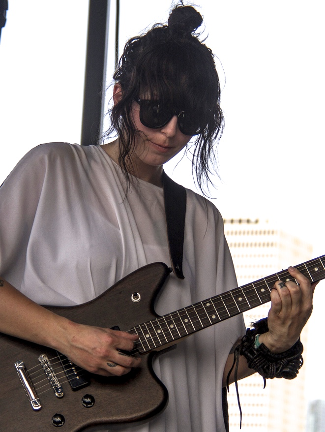 Chelsea Wolfe live June 3, 2012 at FreePress Festival in Houston, Texas